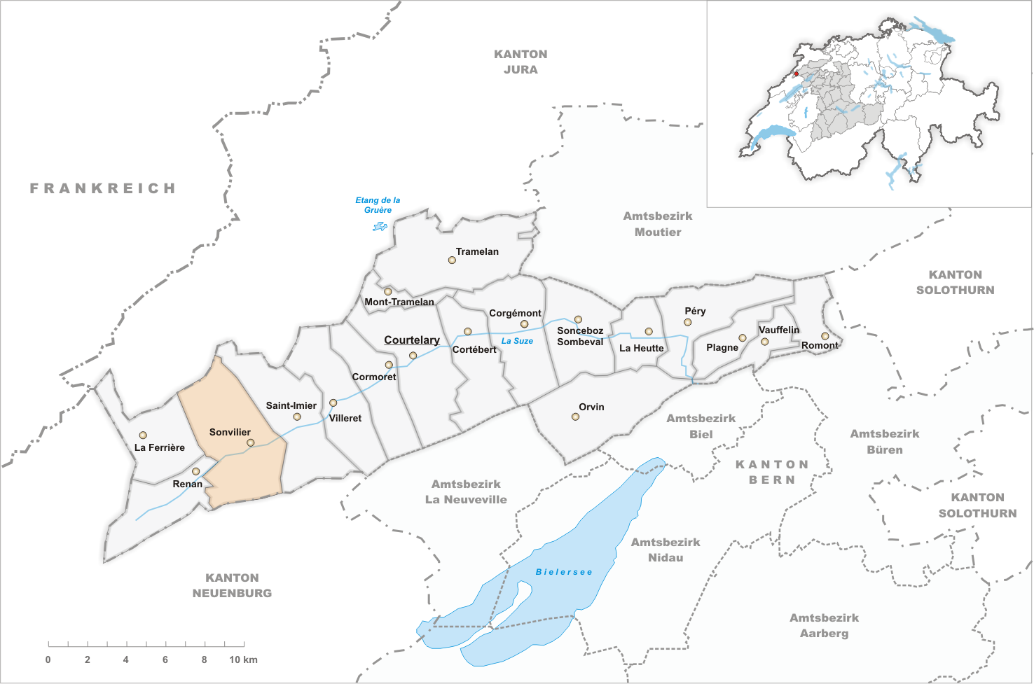 Municipality Sonvilier